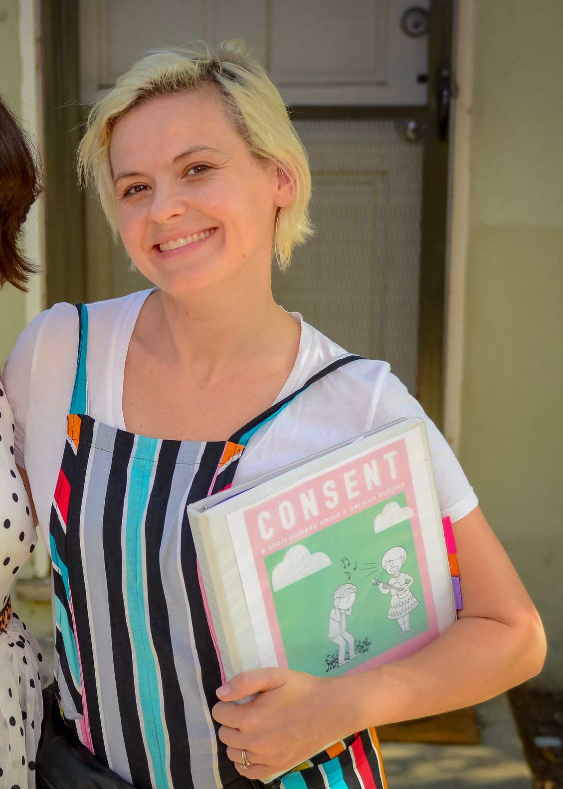 Kimmy Gatewood on the set of Consent in August 2018